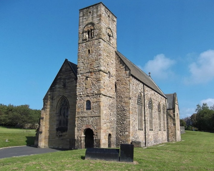 St Peter's parish cchurch, Monkwearmouth, Tyne & Wear, England, seen from the west